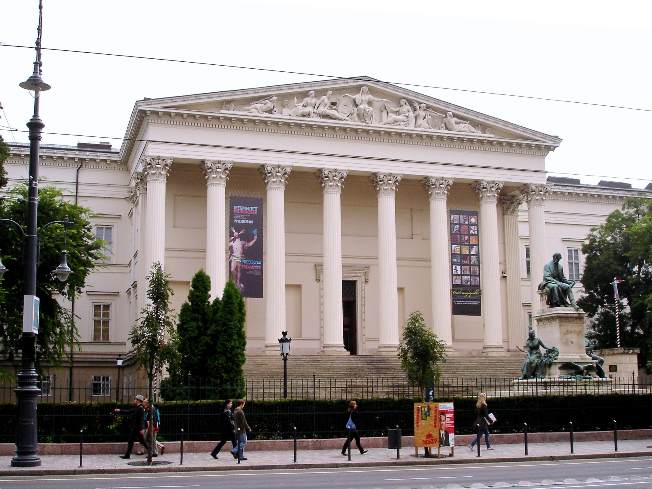 Magyar Nemzeti Múzeum